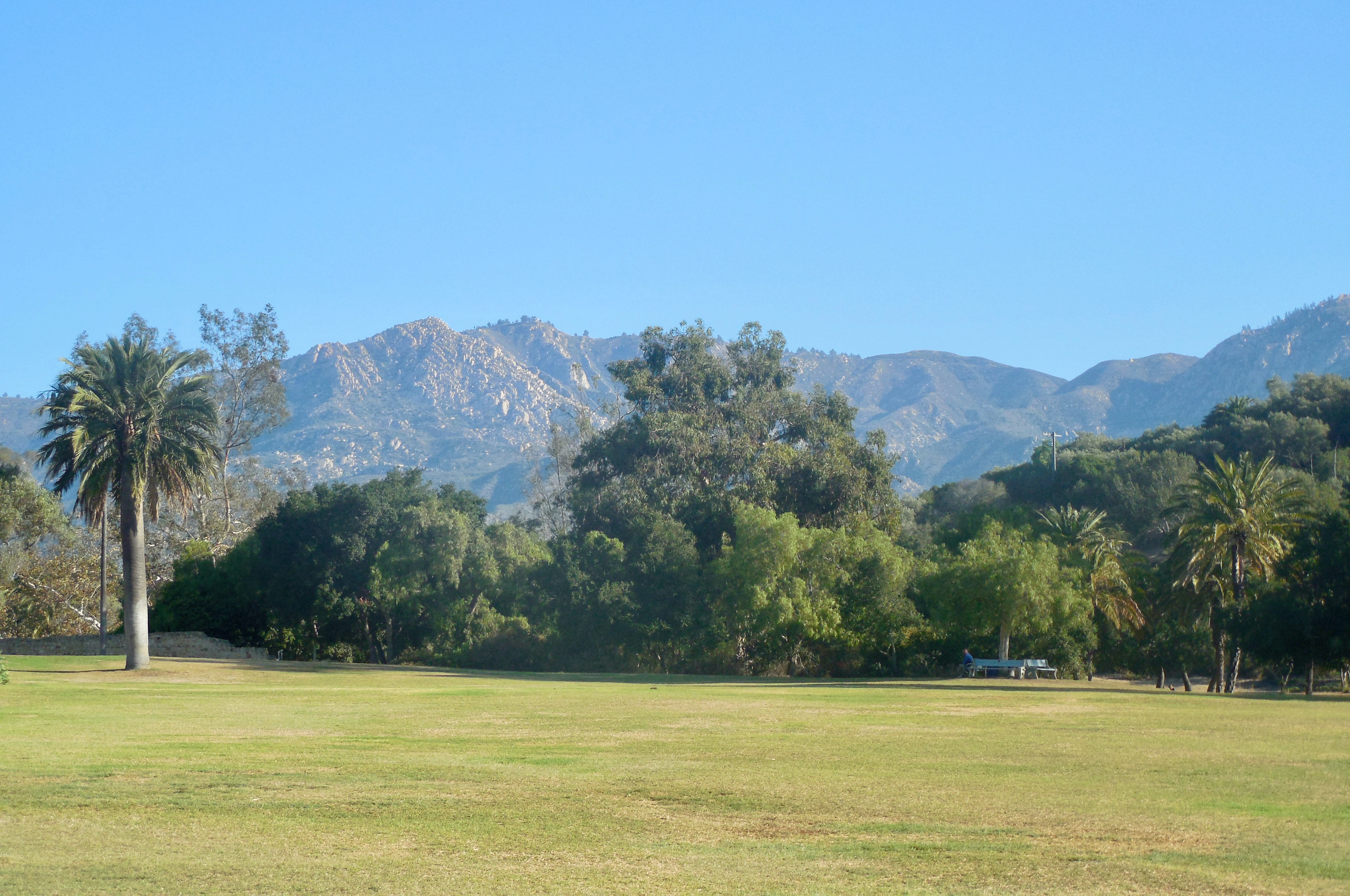 Mission Historical Park along East Los Olivos St. in Santa Barbara, California (looking northeast toward the Santa Ynez Mountains), Sep 2014